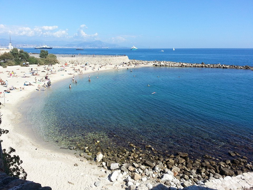 Beach in Antibes, as seen from the city's walls.